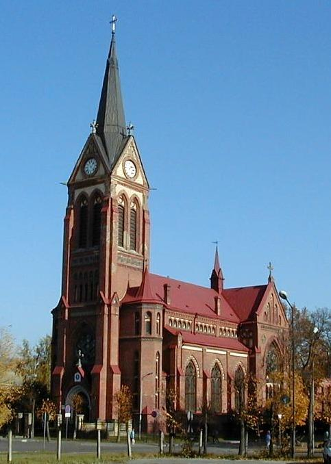 Jelgava Immaculate Virgin Mary Roman Catholic Cathedral